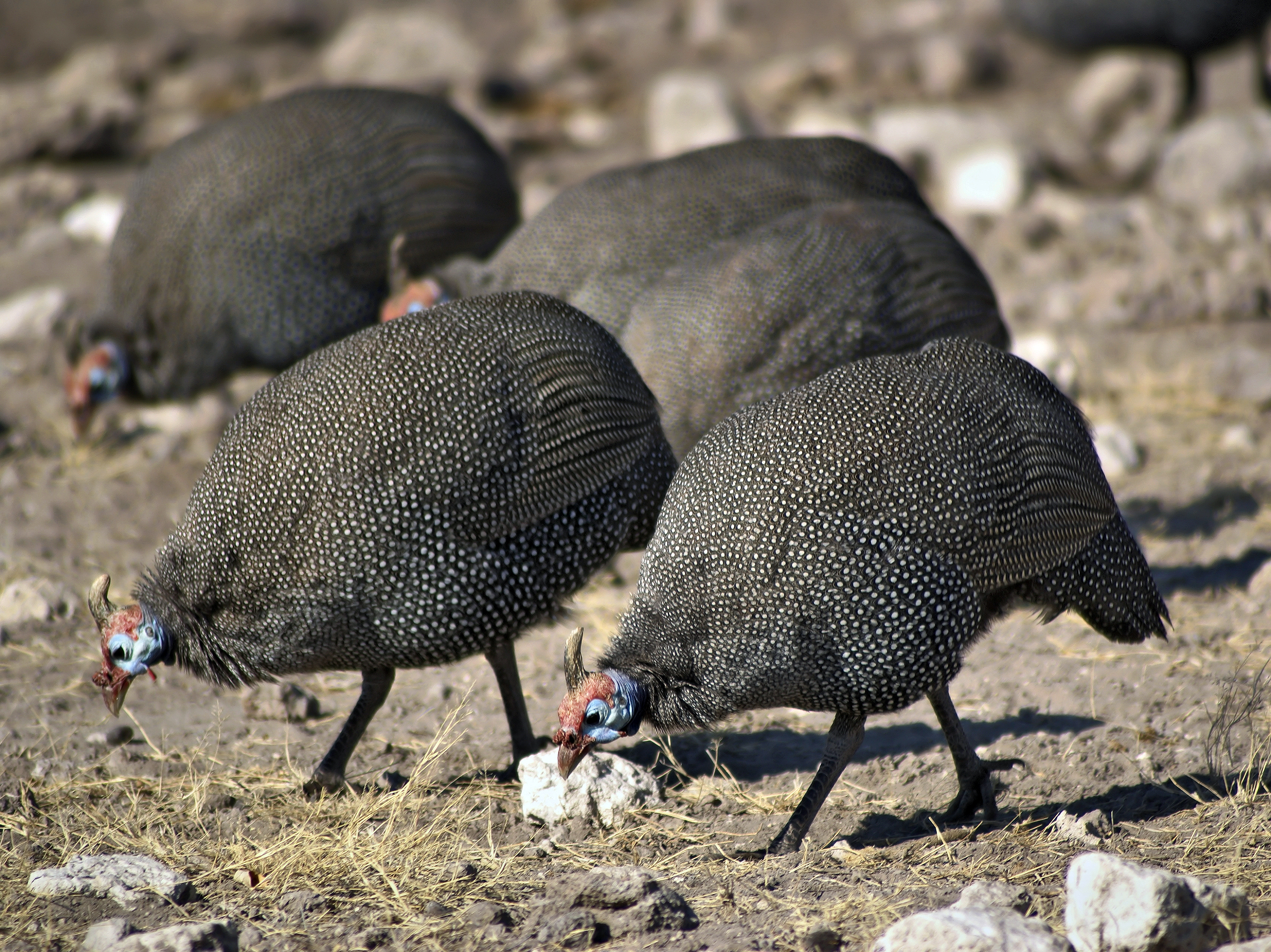 Helmeted Guineafowl flock at Chudop waterhole, Etosha, Namibia. Note wart-like growths on nostrils, dense spotting and angular helmets in this race.